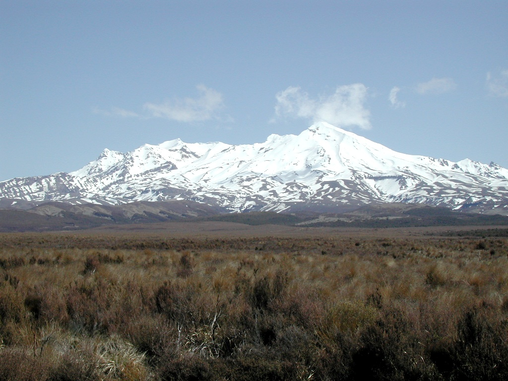 Snow-covered Mount Ruapehu viewed across Chionochloa rubra tussock grassland.